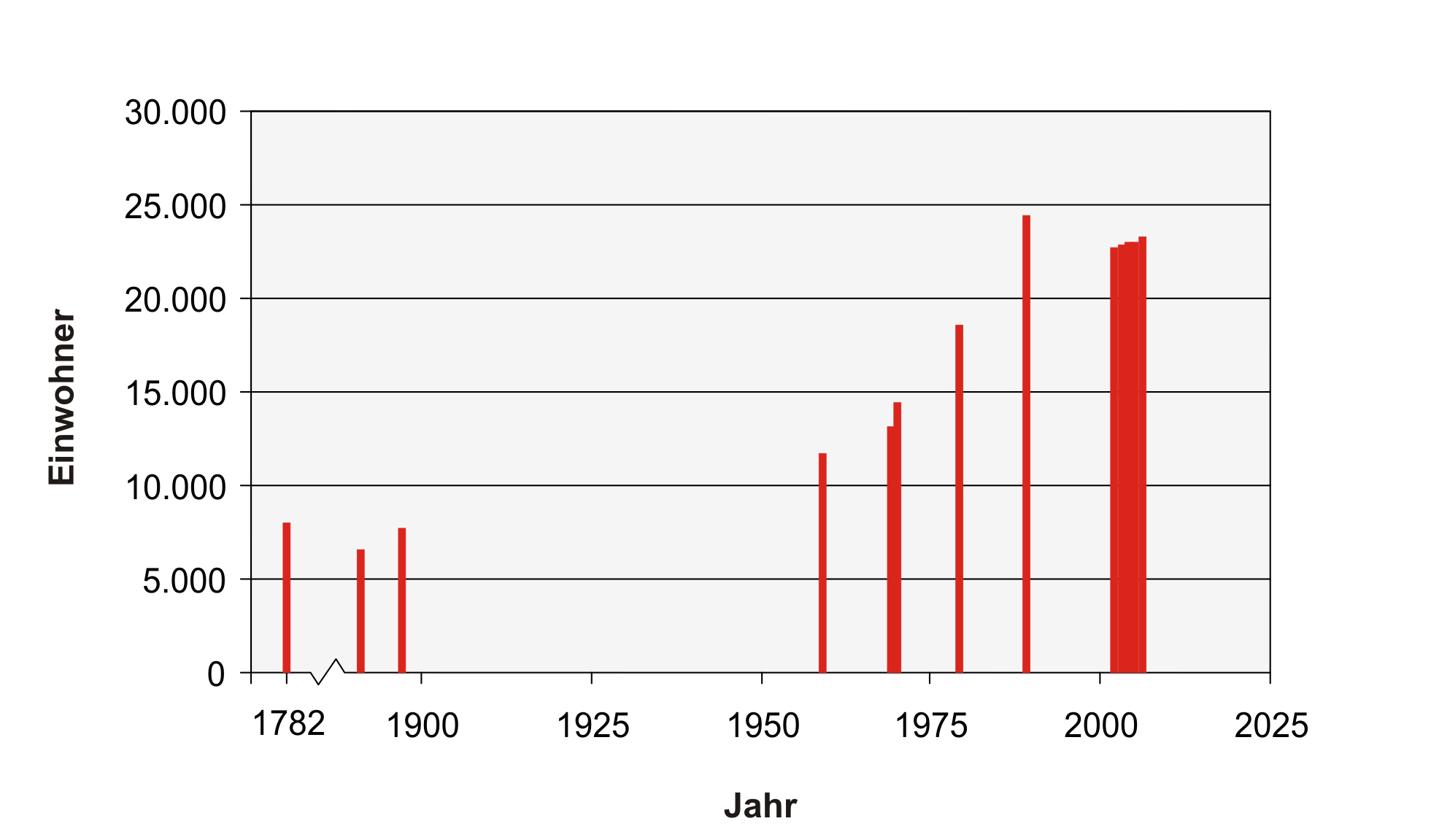 Description = Hadjatsch Population Source = own work, Skluesener Date = 09.12.2006 Author = Skluesener